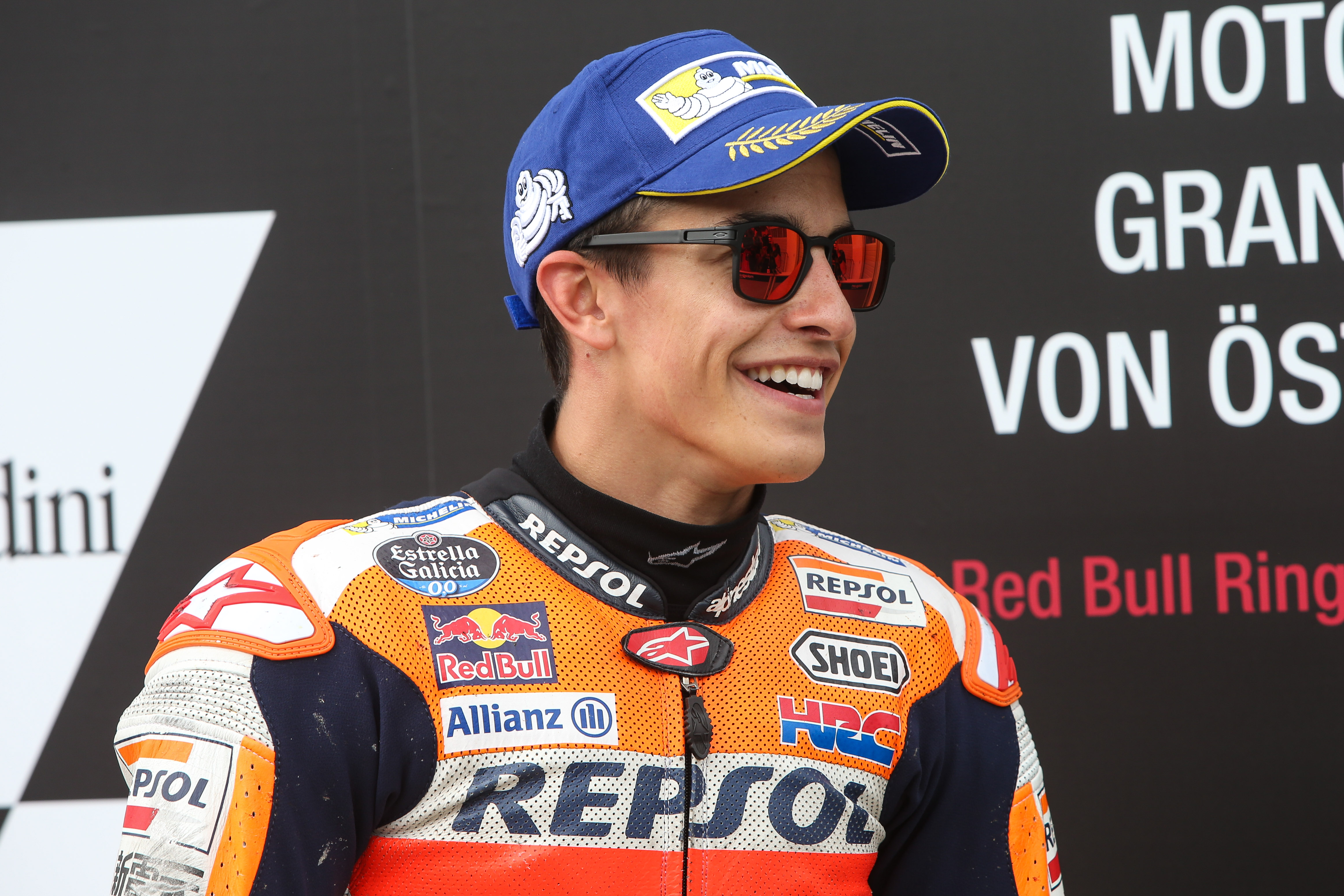 Canon EOS-1D X EF70-200mm f/2.8L IS USM